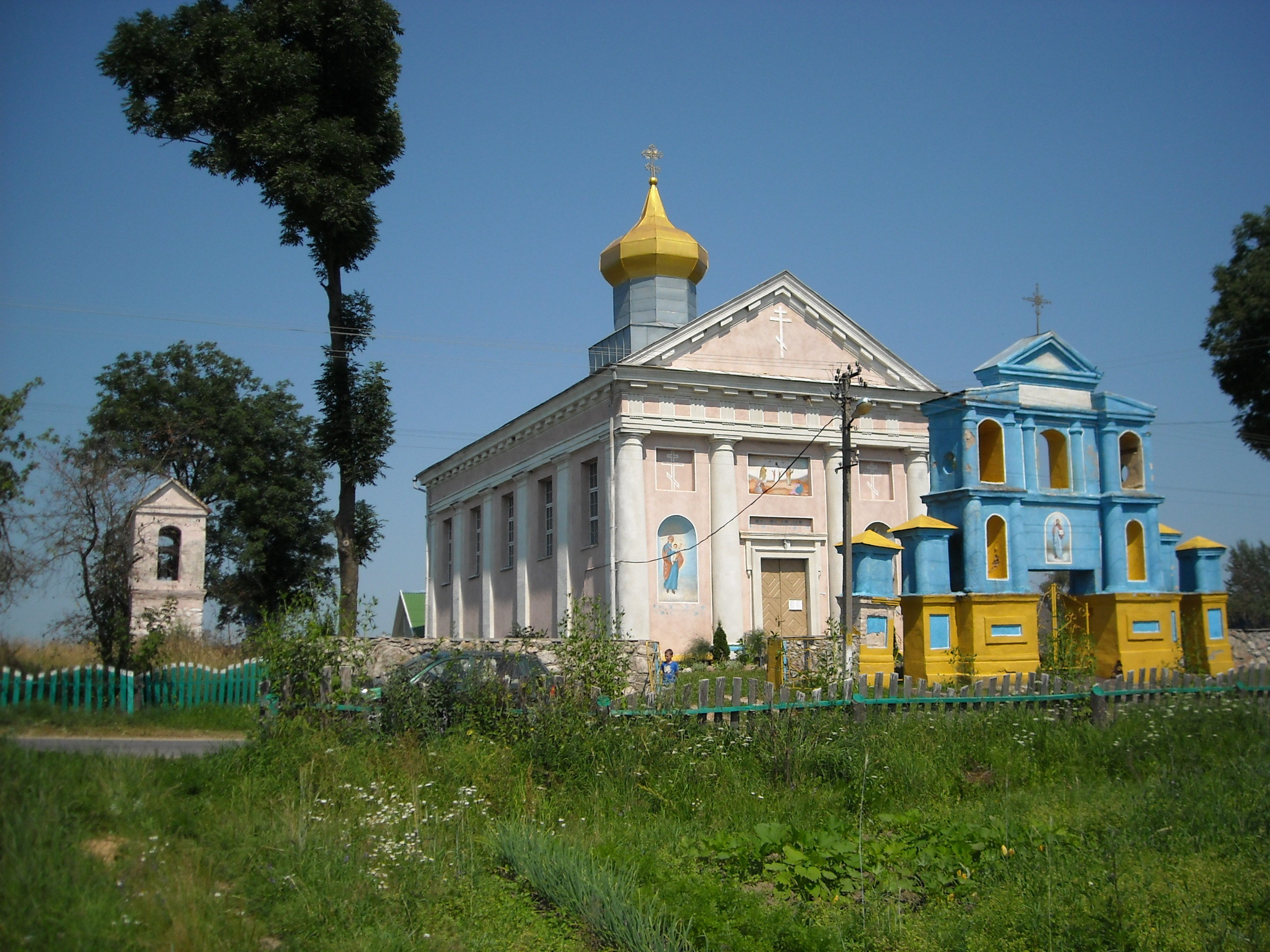 Беларуская (тарашкевіца): Царква. в. Мамаі This is a photo of Belarusian heritage monument. Reference number: 213Г000394 ( WLM)